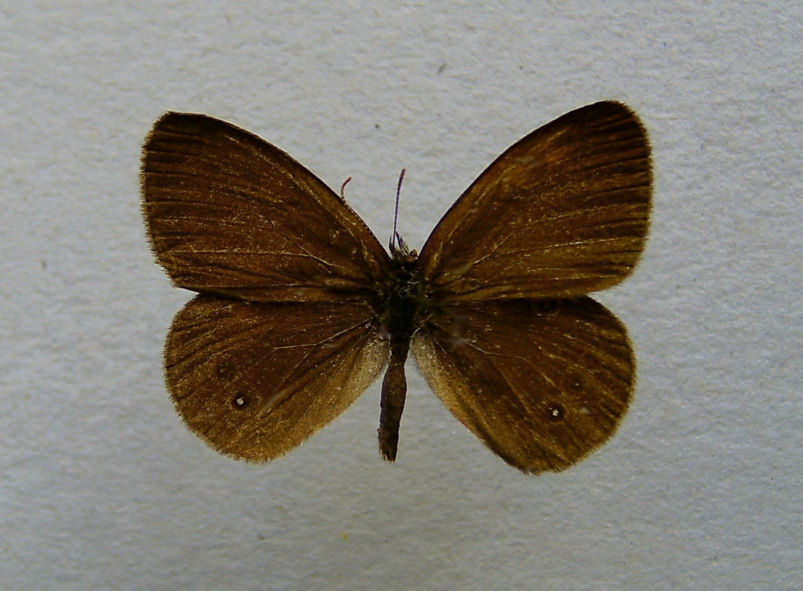 Coenonympha oedippus